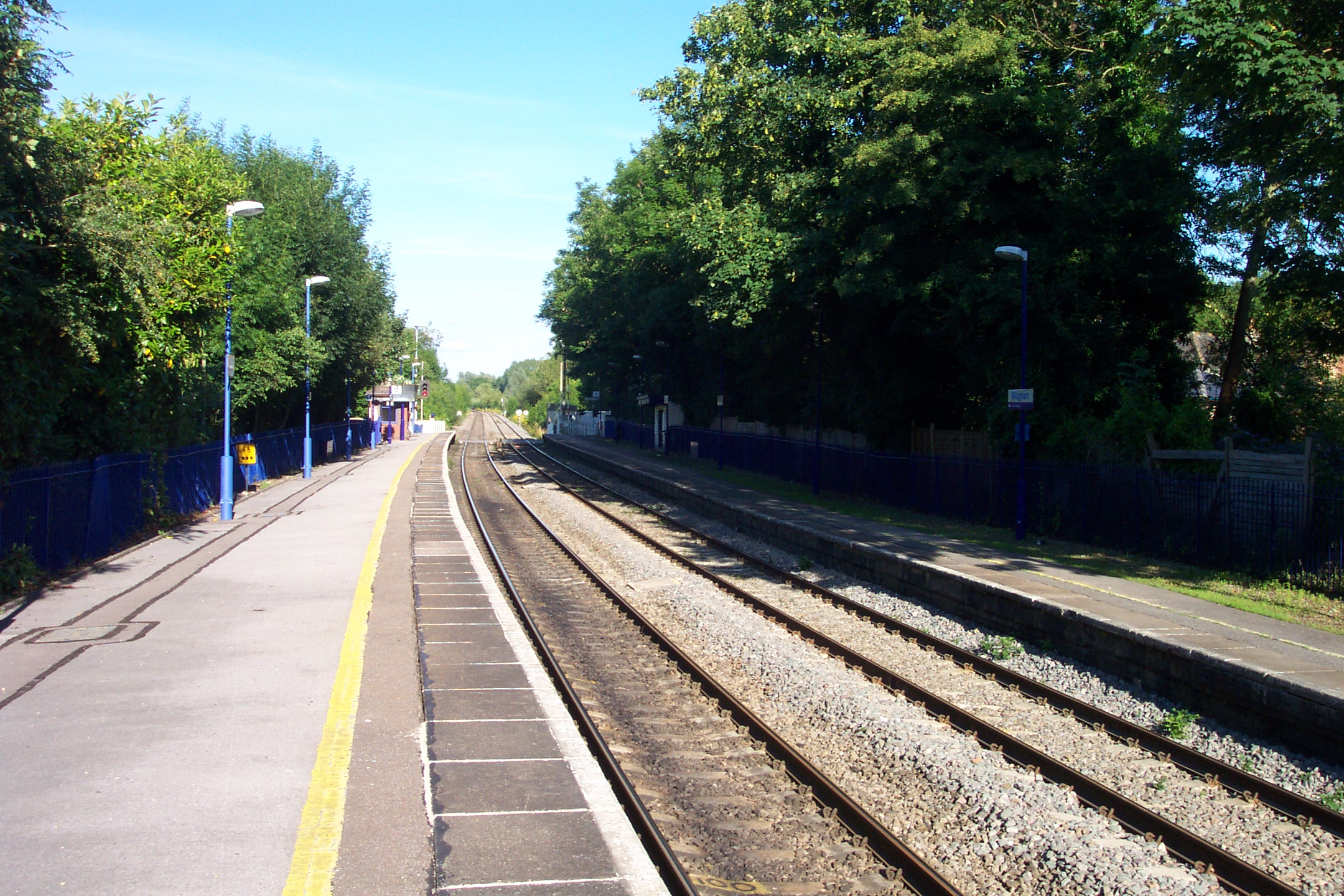 Midgham railway station, looking east. For more information see the Wikipedia article Midgham railway station.